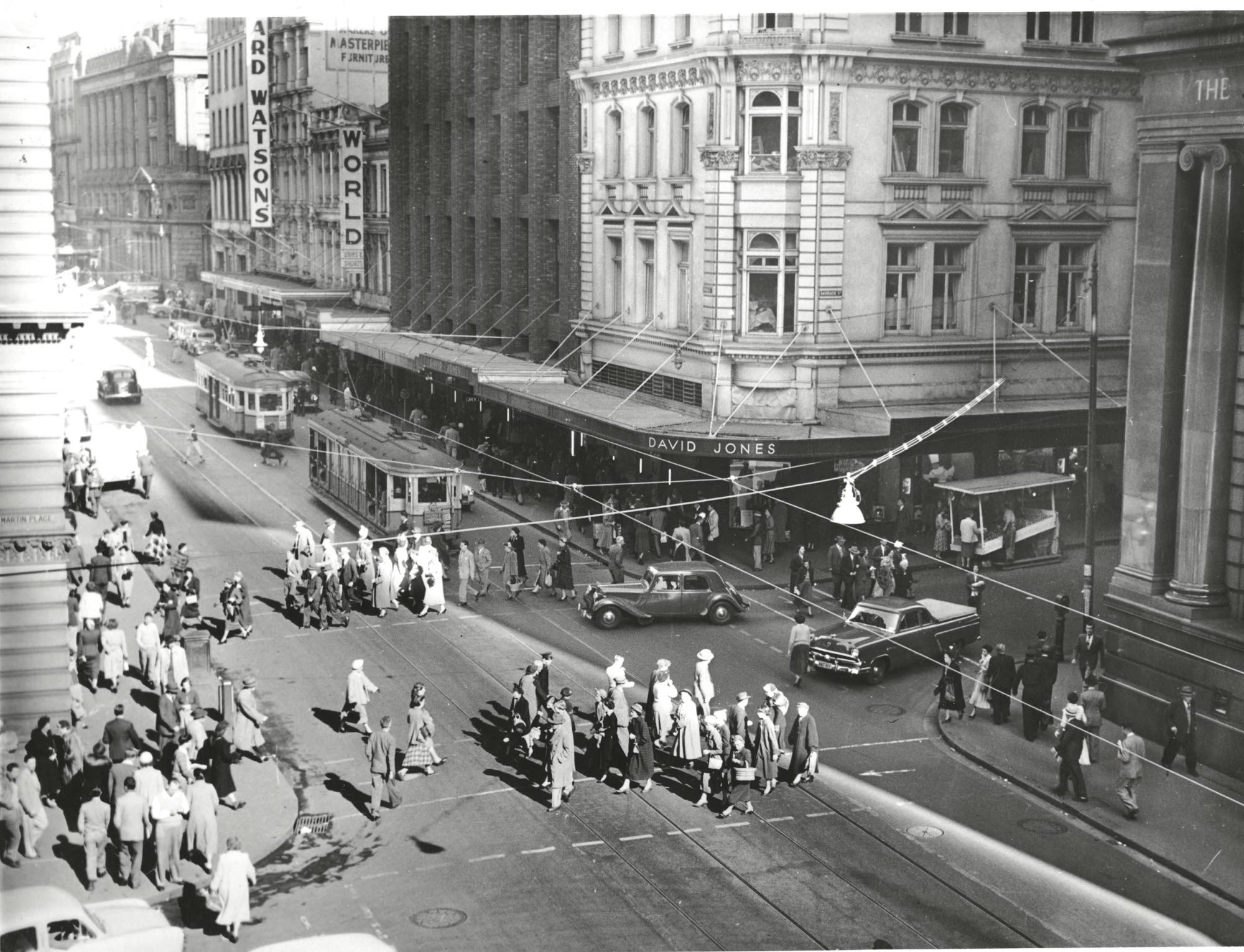 Trams operating at the intersection of Barrack Street and George Street, Sydney - showing the David Jones Barrack Street store Dated: 1950s Digital ID: 17420_a014_a0140001151 Rights: We'd love to hear from you if you use our photos. Many other photos in our collection are available to view and browse on our website using Photo Investigator.